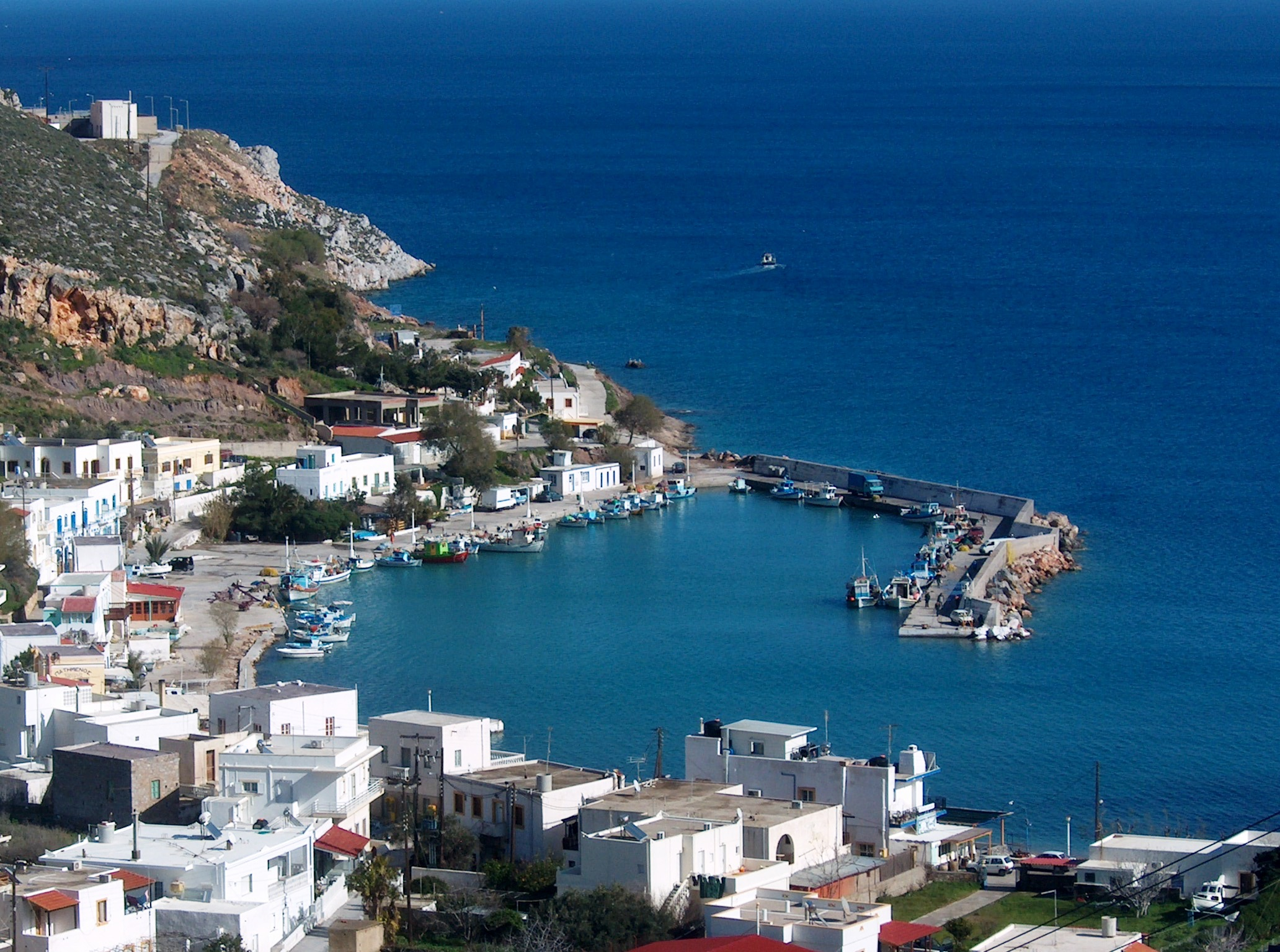 Panteli, Leros